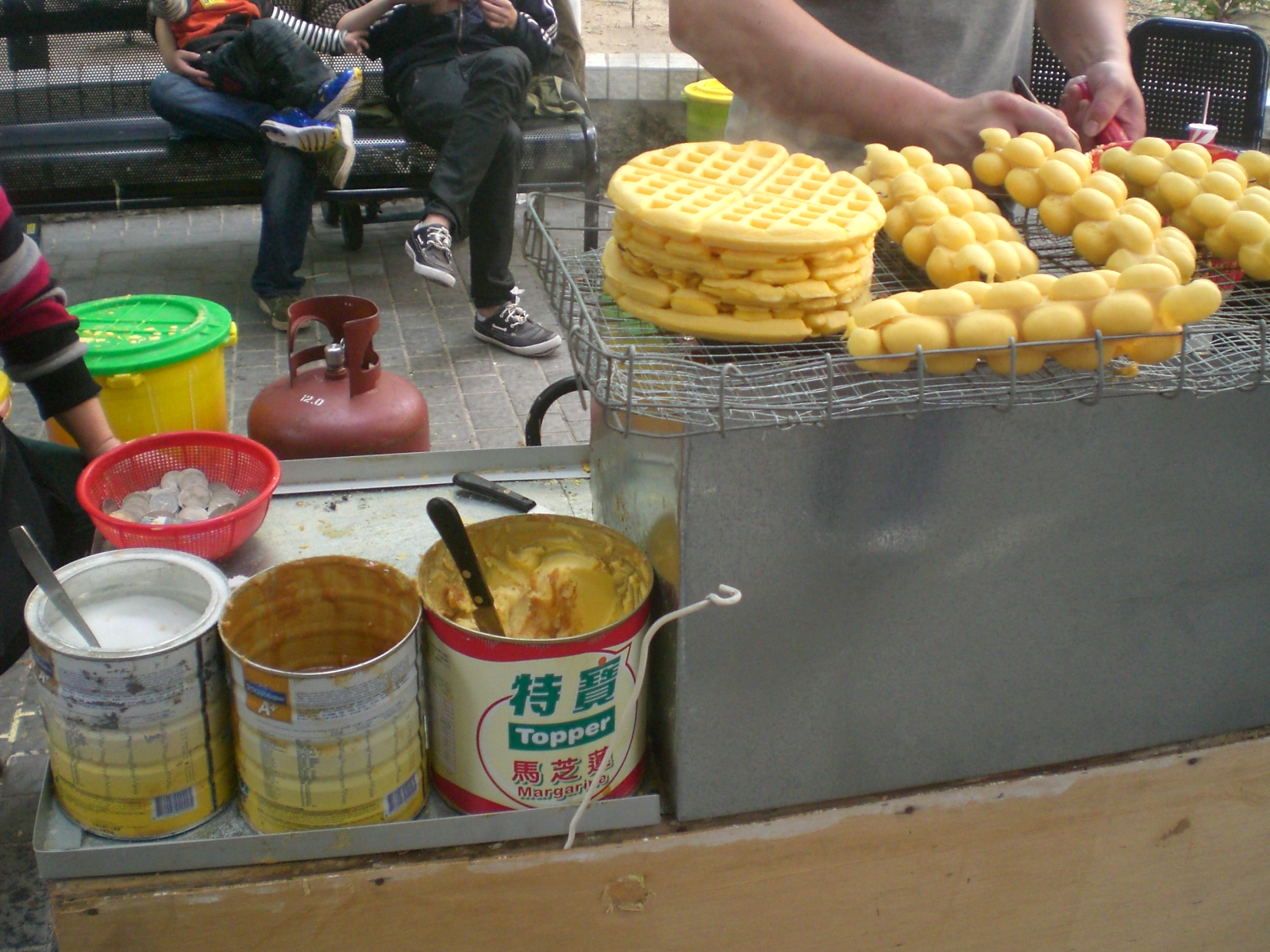 香港zh:黃大仙 黃大仙下邨 小販 東頭村道與 正德街之交界 街頭小食 小食 雞蛋仔